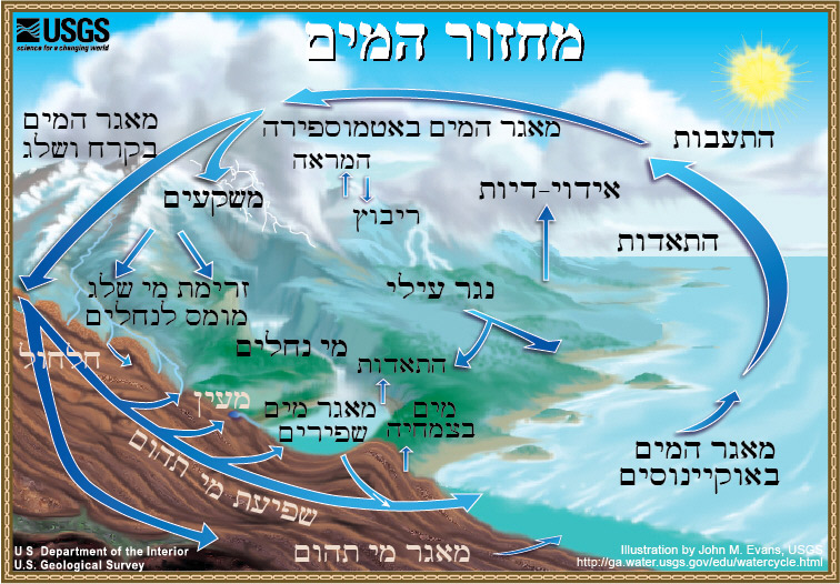 Water-Cycle Diagram, Hebrew